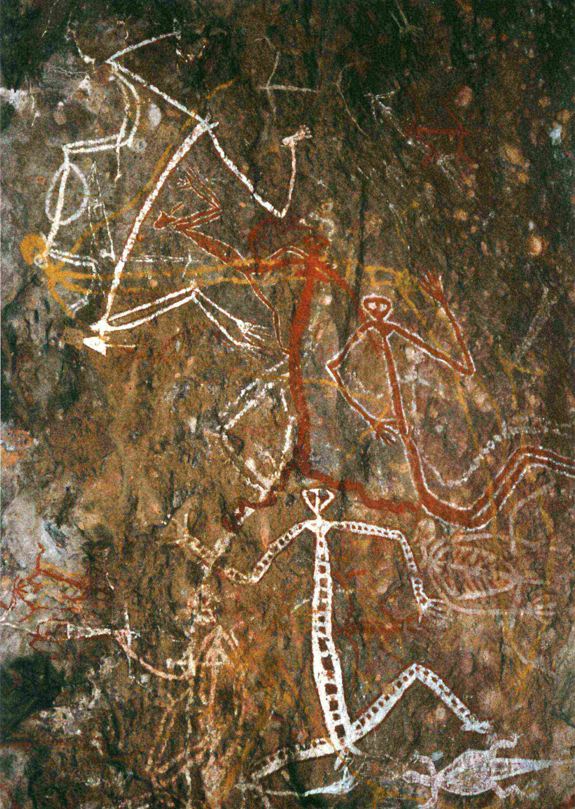 Aboriginal graffiti in the Kakadu National Park, Northern Territory, Australia